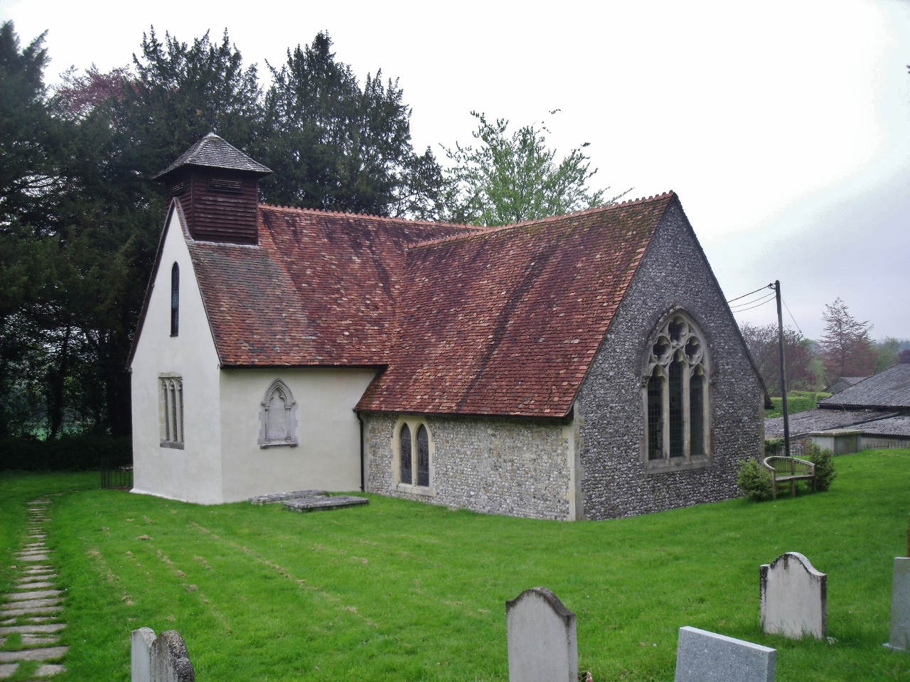 St Simon and St Jude is listed Grade II and has a small bell tower containing two bells. It was built in the 12th century. Situated in Bramdean, a small but historic parish surrounded by the larger parish of Hinton Ampner. Until the late 15th century it was known as Bromdene. The chancel and nave together with the bell tower of wood formed the medieval church (c. 1170).